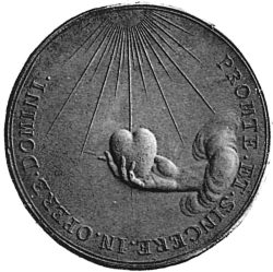 Reverse of a coin depicting a hand holding up a heart. The obverse bears an image of John Calvin.